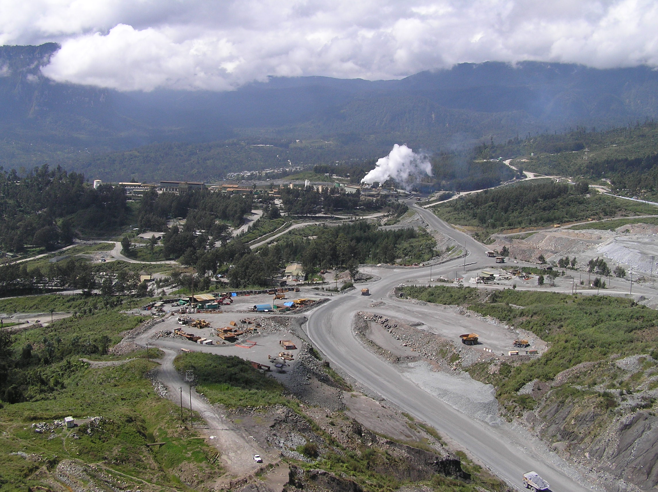 Looking out across the lower half of the Porgera processing plant, and down into the Porgera valley. Photo by Richard Farbellini